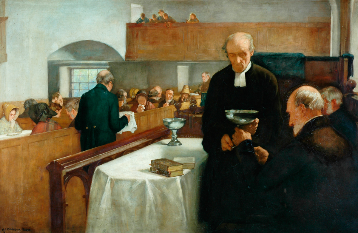 Oil on canvas, 85 x 127 cm Collection: Bradford Museums and Galleries